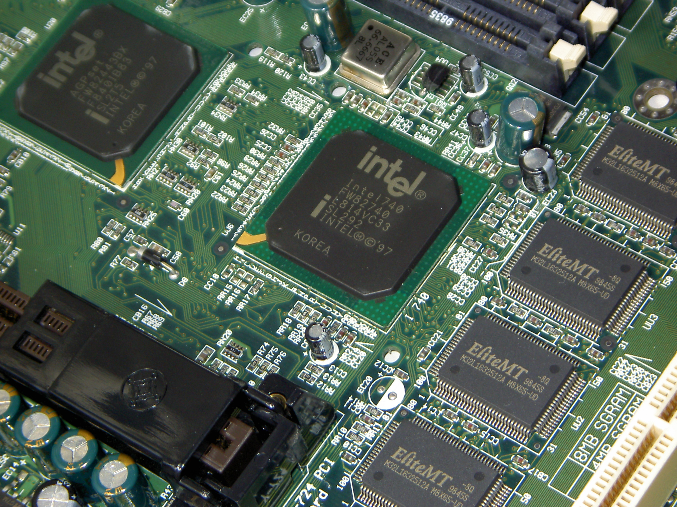 Intel i740 Onboard Graphics with EP-BXT